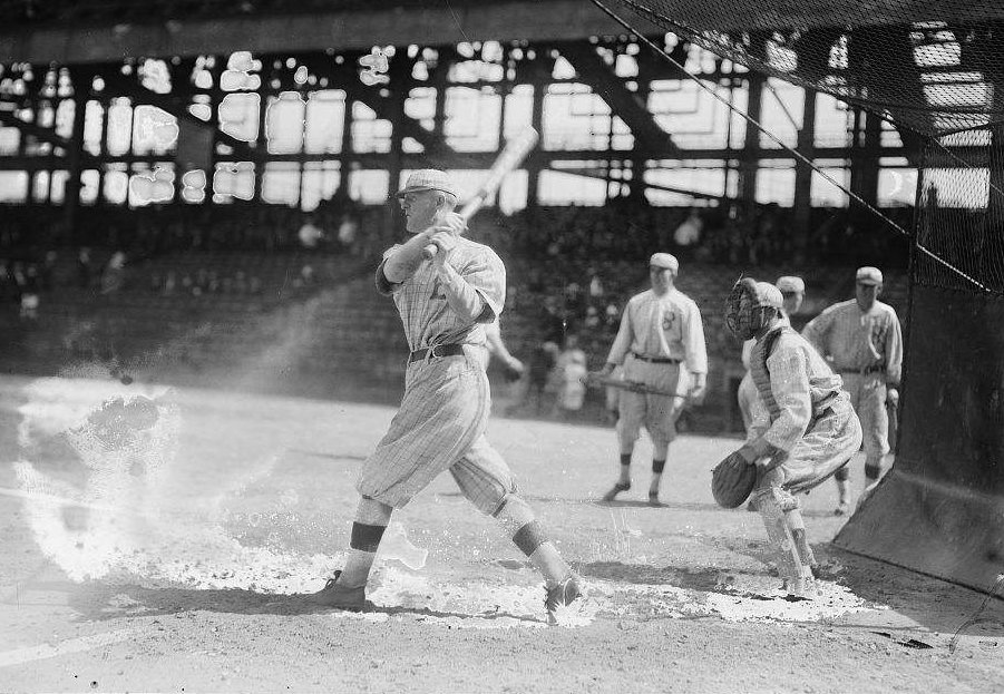 American baseball player Mike Mowrey batting for the Brooklyn Dodgers. From the Bain Collection. Title: [Mike Mowrey batting, Brooklyn NL (baseball)] Creator(s): Bain News Service, publisher Date Created/Published: [1916] Medium: 1 negative : glass ; 5 x 7 in. or smaller. Reproduction Number: LC-DIG-ggbain-22442 (digital file from original negative) Rights Advisory: No known restrictions on publication. Call Number: LC-B2- 3939-14 [P&P] Repository: Library of Congress Prints and Photographs Division Washington, D.C. 20540 USA Notes: Original data provided by the Bain News Service on the negatives or caption cards: Mowrey, Dodgers. Corrected title and date based on research by the Pictorial History Committee, Society for American Baseball Research, 2006. Forms part of: George Grantham Bain Collection (Library of Congress). General information about the Bain Collection is available at Format: Glass negatives. Collections: Bain Collection Bookmark This Record